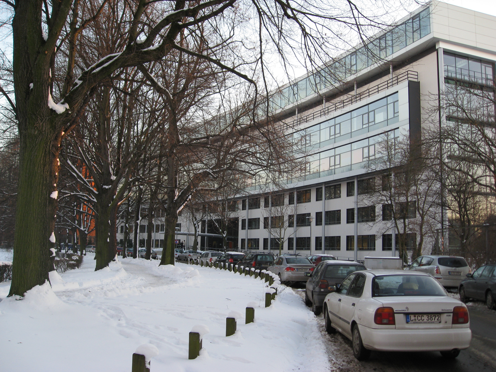 Street view of the Max Planck Institute for Evolutionary Anthropology in Leipzig, Germany. Taken 13 January 2009.